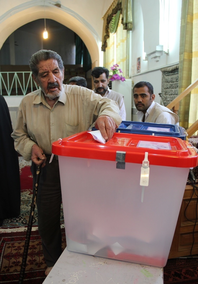 Voter Cast his vote in ballot box- Iranian presidential election, 2013 in Sarakh